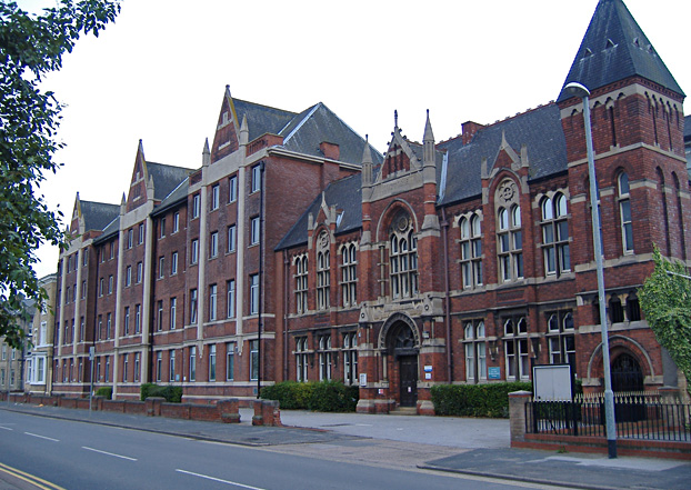 Victoria House, Park Street Both buildings are now used for NHS offices. The closer of the two (and possibly the further one too) was originally the Victoria Hospital for Sick Children, opened in 1891.